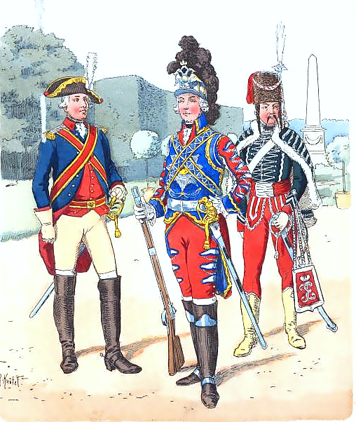 Russian troopers from 1790